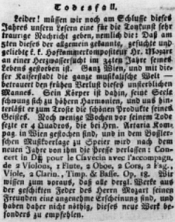 Mozarts death in the “Wiener Zeitung” from Dezember 1791